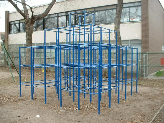 A jungle gym in a park in Montreal.